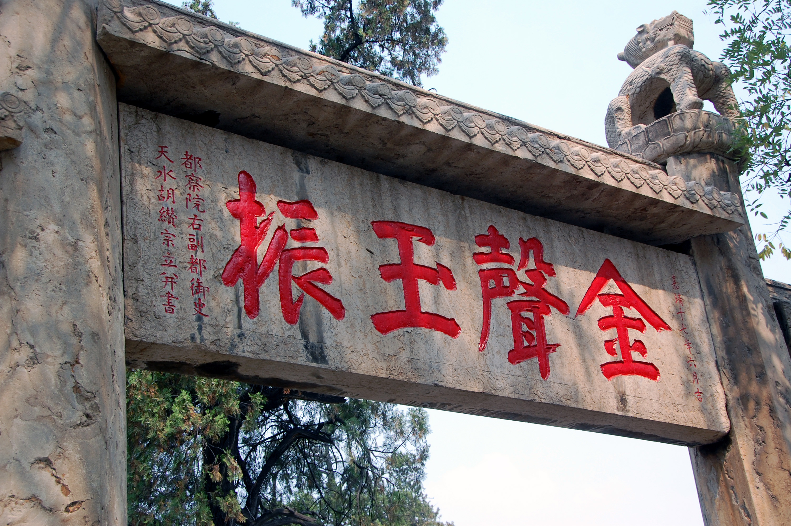 Confucian Temple, Qufu